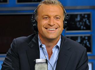 Profile photo/headshot of Dylan Ratigan on a talk show set.